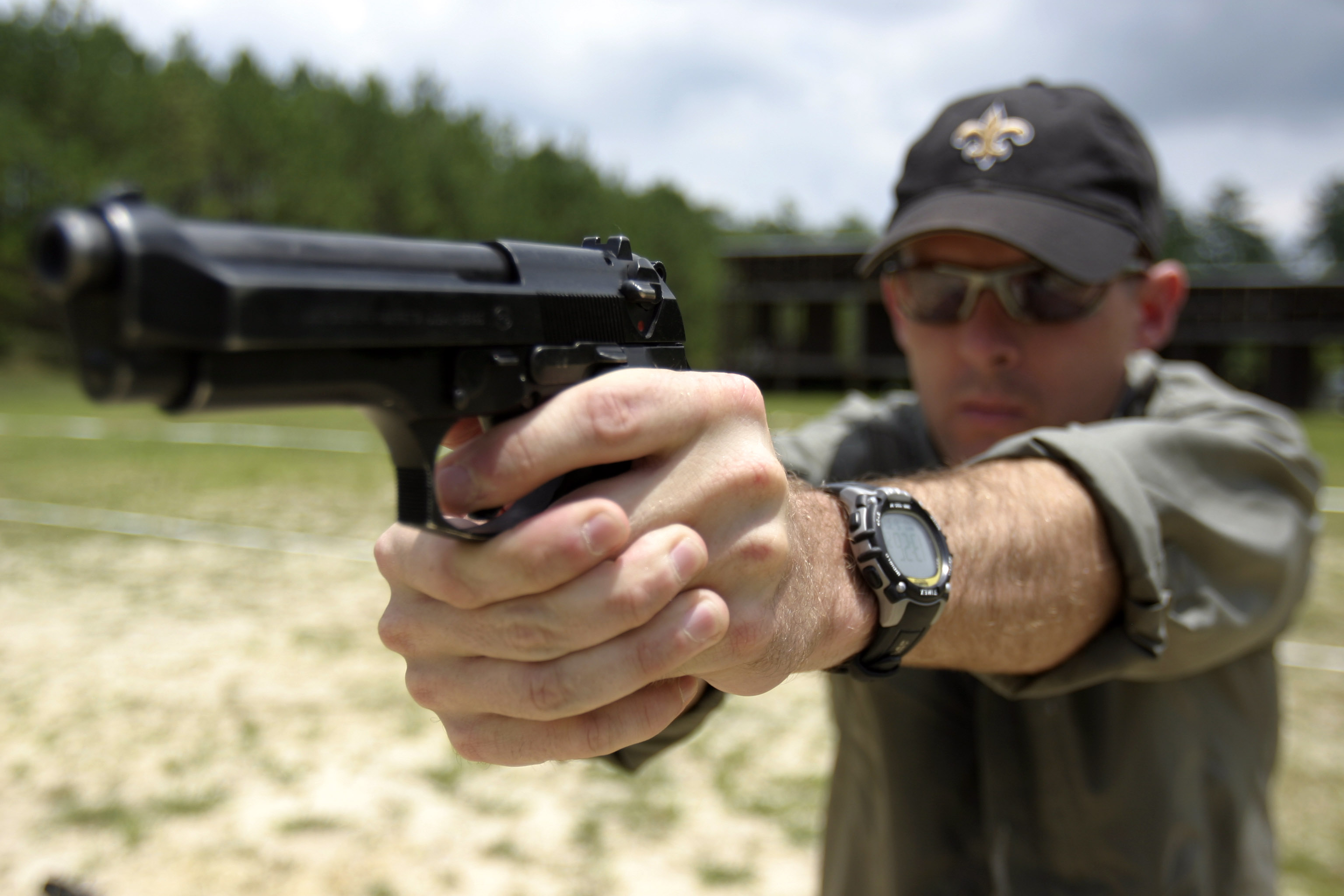 A Marine with Marine Special Operations Advisor Group, U.S. Marine Corps Forces, Special Operations Command, practices drawing and sighting in on targets with an M9 9mm service pistol during a dry fire exercise as part of the Defensive Pistol Course at the Military Operations In Urban Terrain Assault Course here, June 30 through July 1. The Marines practiced drawing on targets in the morning during dry fire exercises to build muscle memory before shooting live rounds.